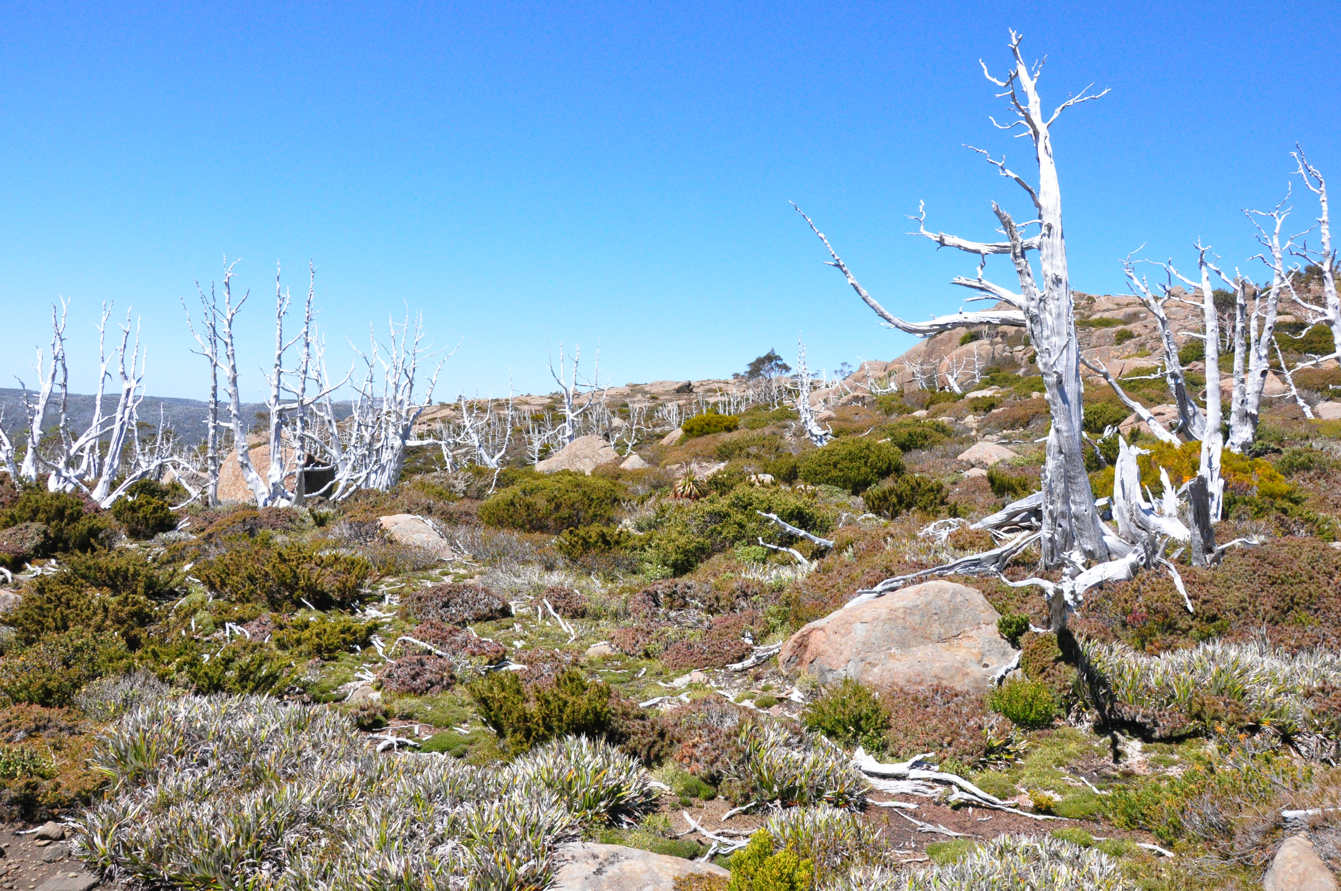 Fire damage to A.cupressoides at the Tarn Shelf, Tasmania